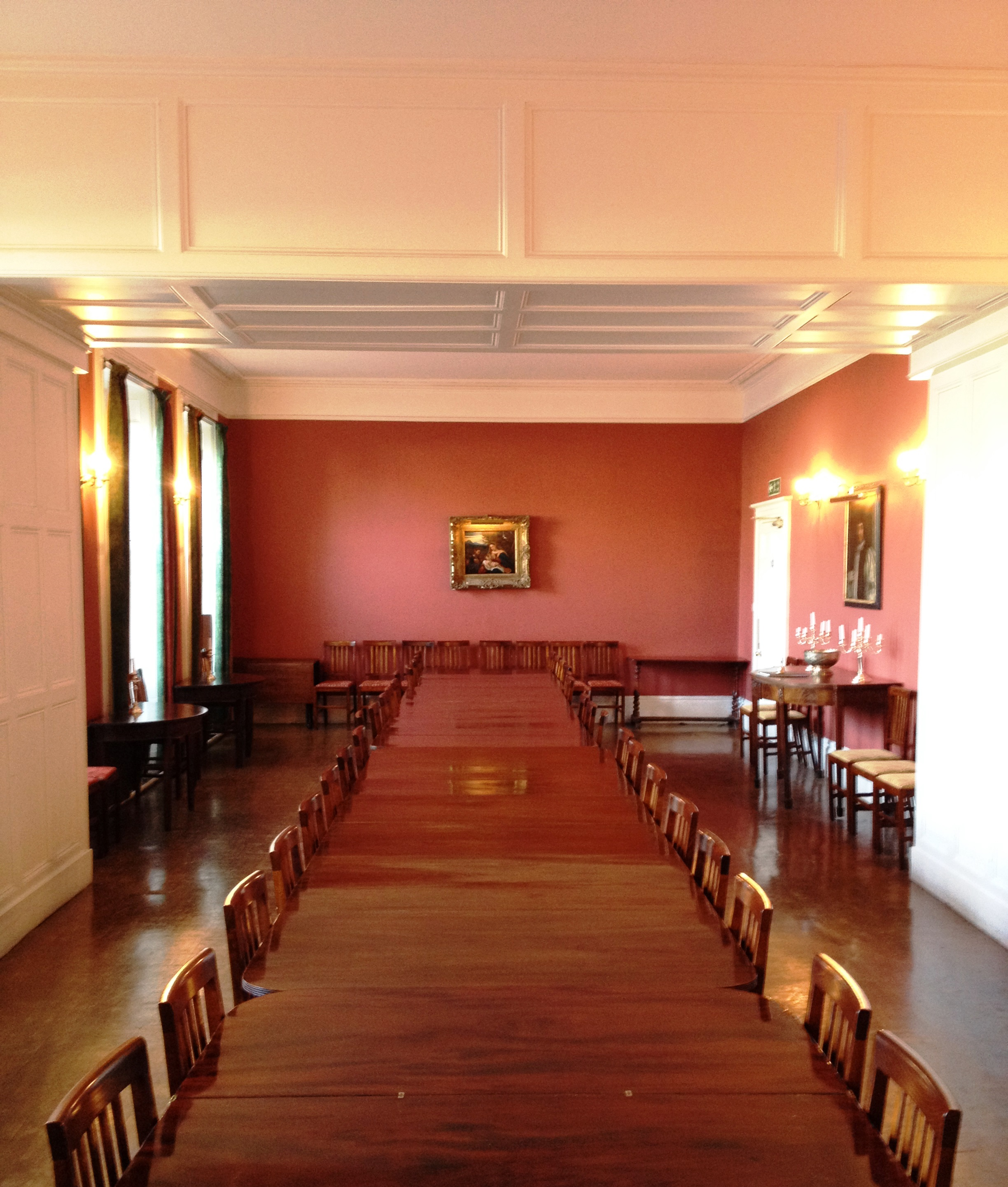 Refectory (Dining Hall) of St Benet's Hall, University of Oxford